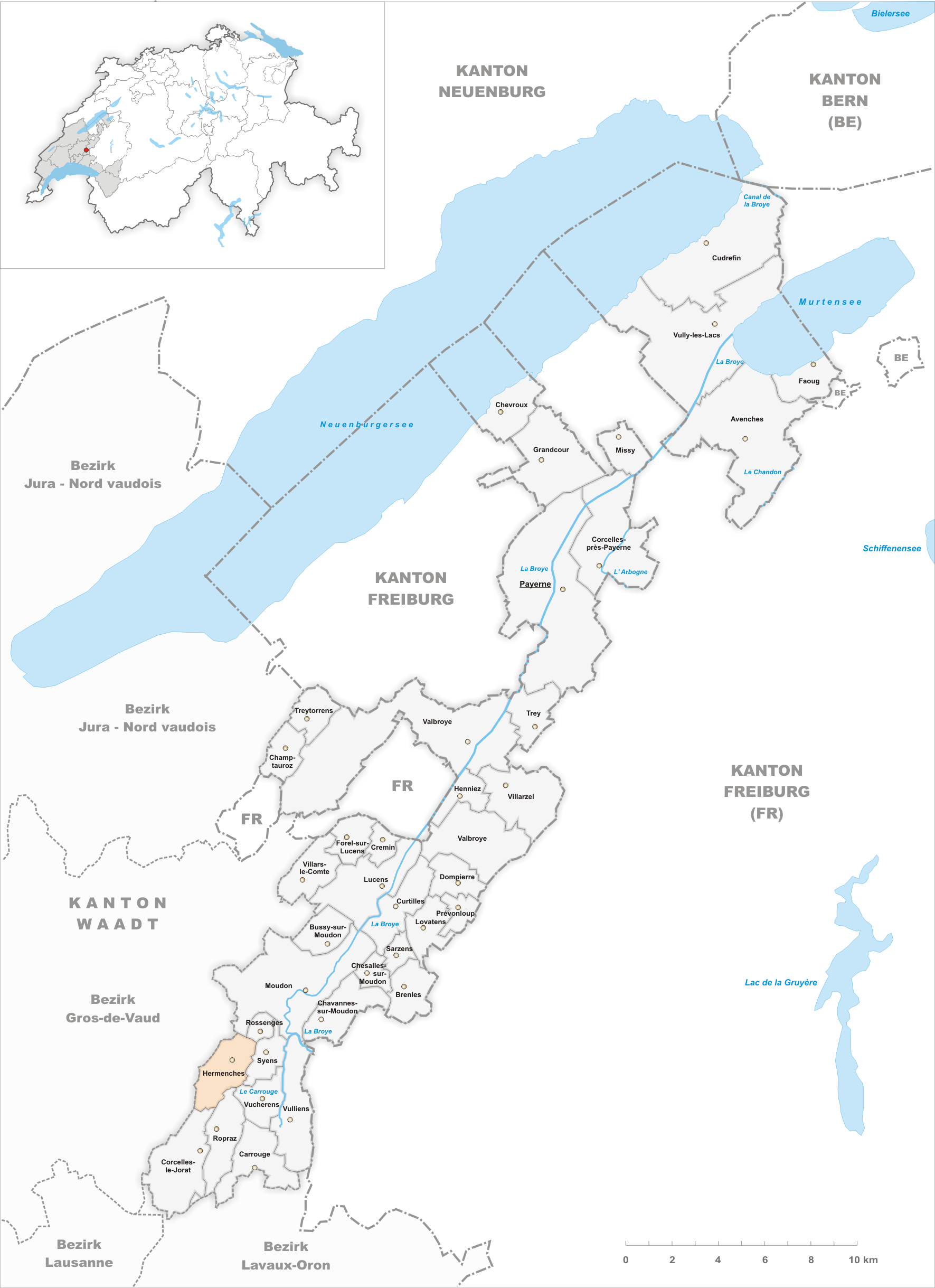 Municipality Hermenches